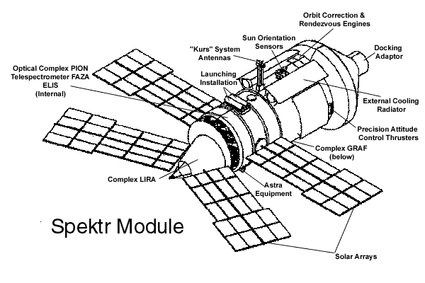 A diagram showing some of the external components of the Spektr module of the Soviet/Russian space station Mir.